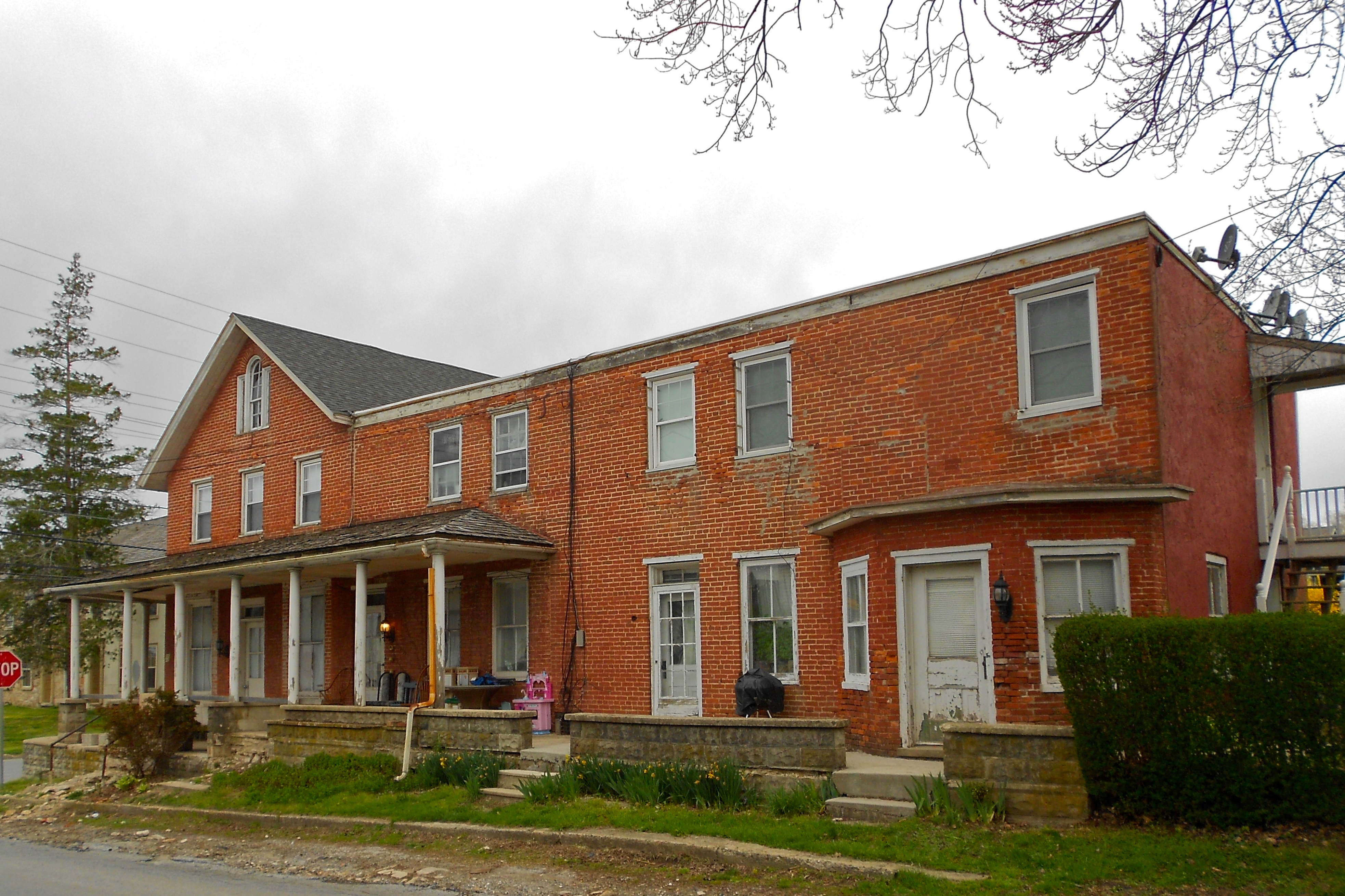 Building in Chatham, Chester County, Pennsylvania